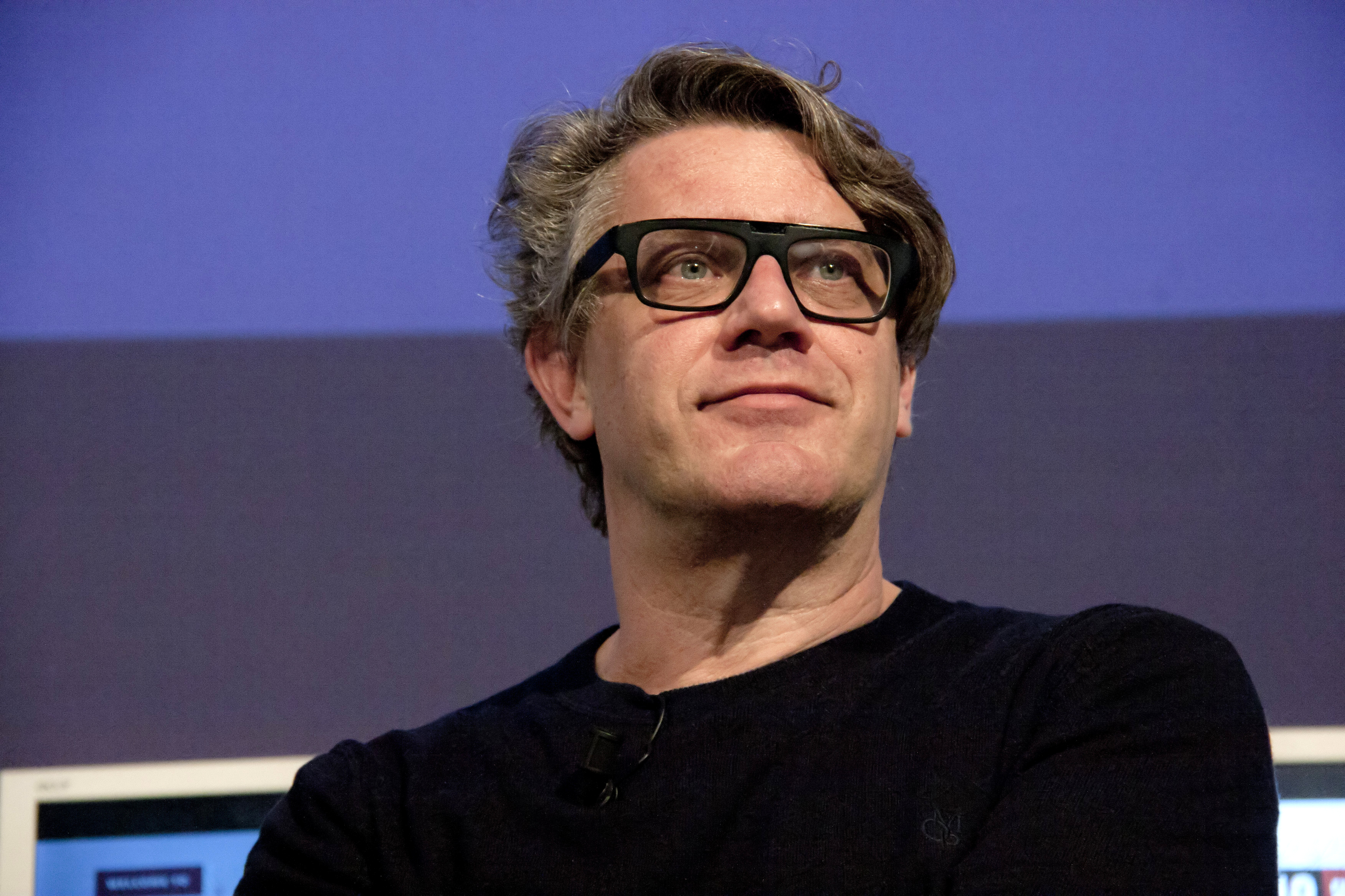 Event: Meet the Media Guru | Focus Innovazione Cultura con Derrick de Kerckhove, Freddy Paul Grunert e Alessandro Rubini Date: 4 Mrazo 2015 Venue: Mediateca Santa Teresa- Milan, Italy Twitter: @mmguru / #innovazionecultura Photo by Daniel Trudu